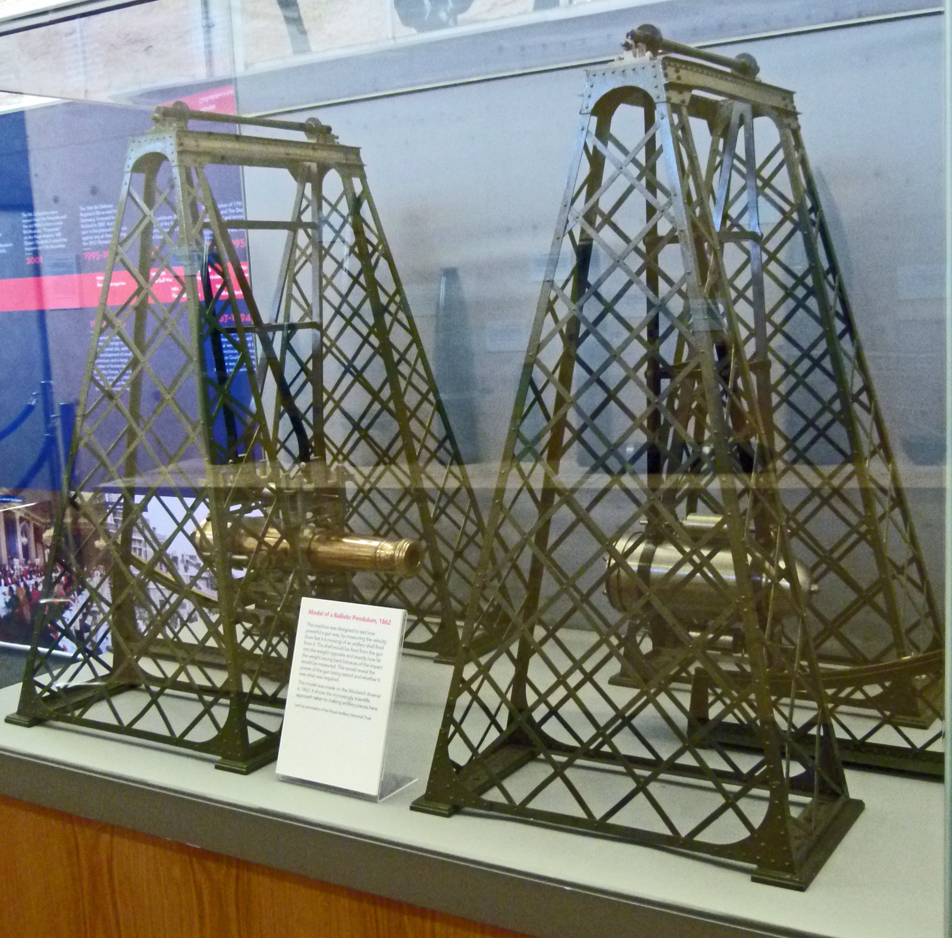 Model of a ballistic pendulum (1862), used at the Royal Arsenal to test how powerful a gun was. Collection of the Royal Artillery Historical Trust. On loan to a semi-permanent exhibition dedicated to the Royal Artillery and Royal Military Academy in Greenwich Heritage Centre, Woolwich, south east London, UK.